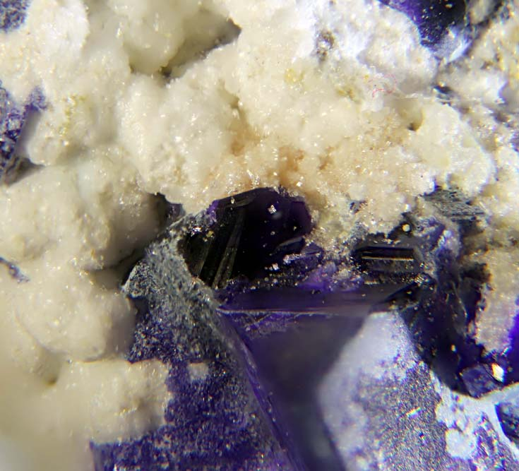 Blue sharp crystals of the extremely rare henmilite associated to very pale pink buryatite from the only known locality worldwide for henmilite (Fuka Mine, Bitchu-cho, Takahashi, Honshu Island, Japan). Henmilite is a Ca-Cu borate and buryatite is a Ca sulphate-borate that has only been found in two localities worldwide.